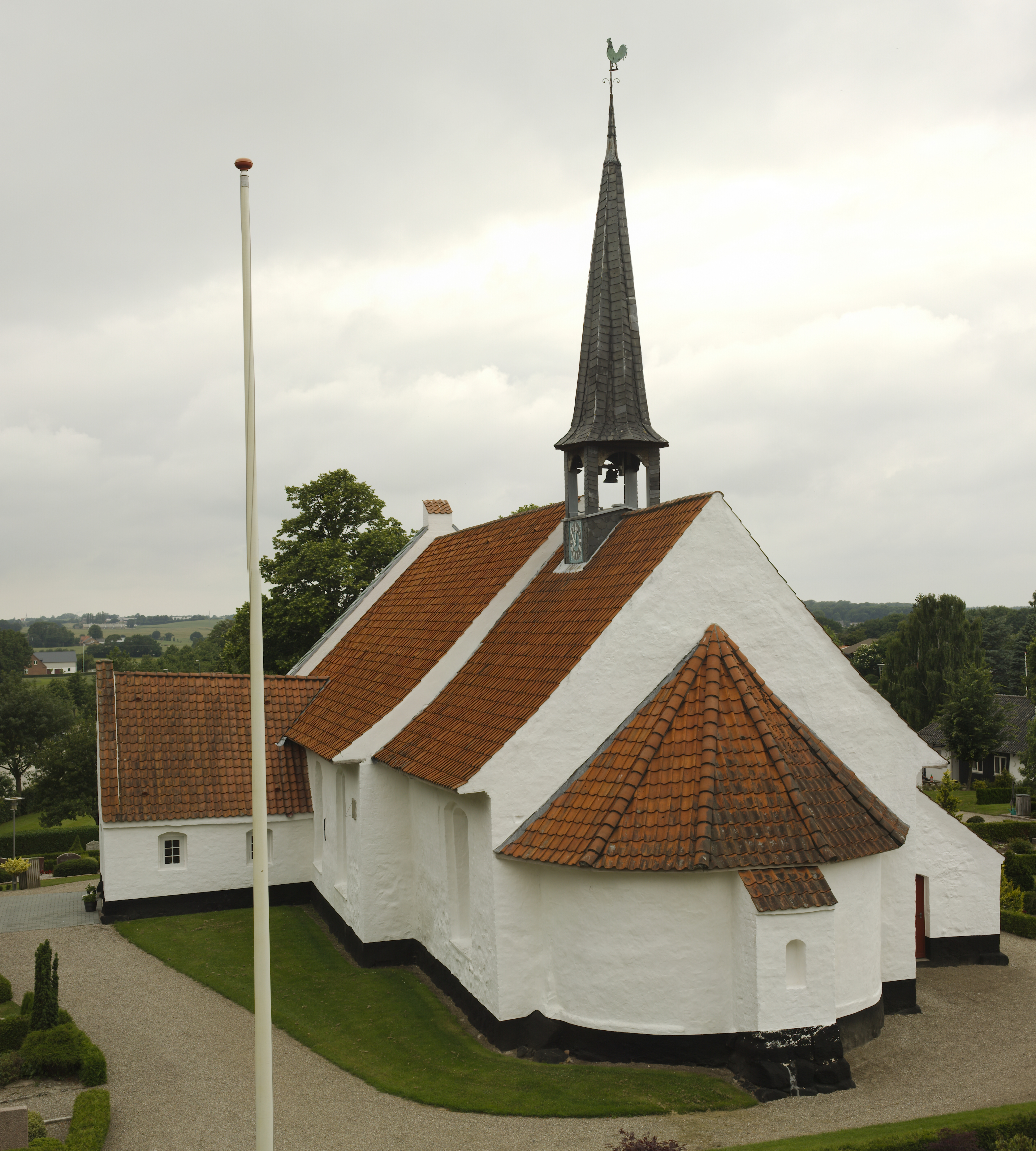 Tandslet Church as seen from the bell housing top